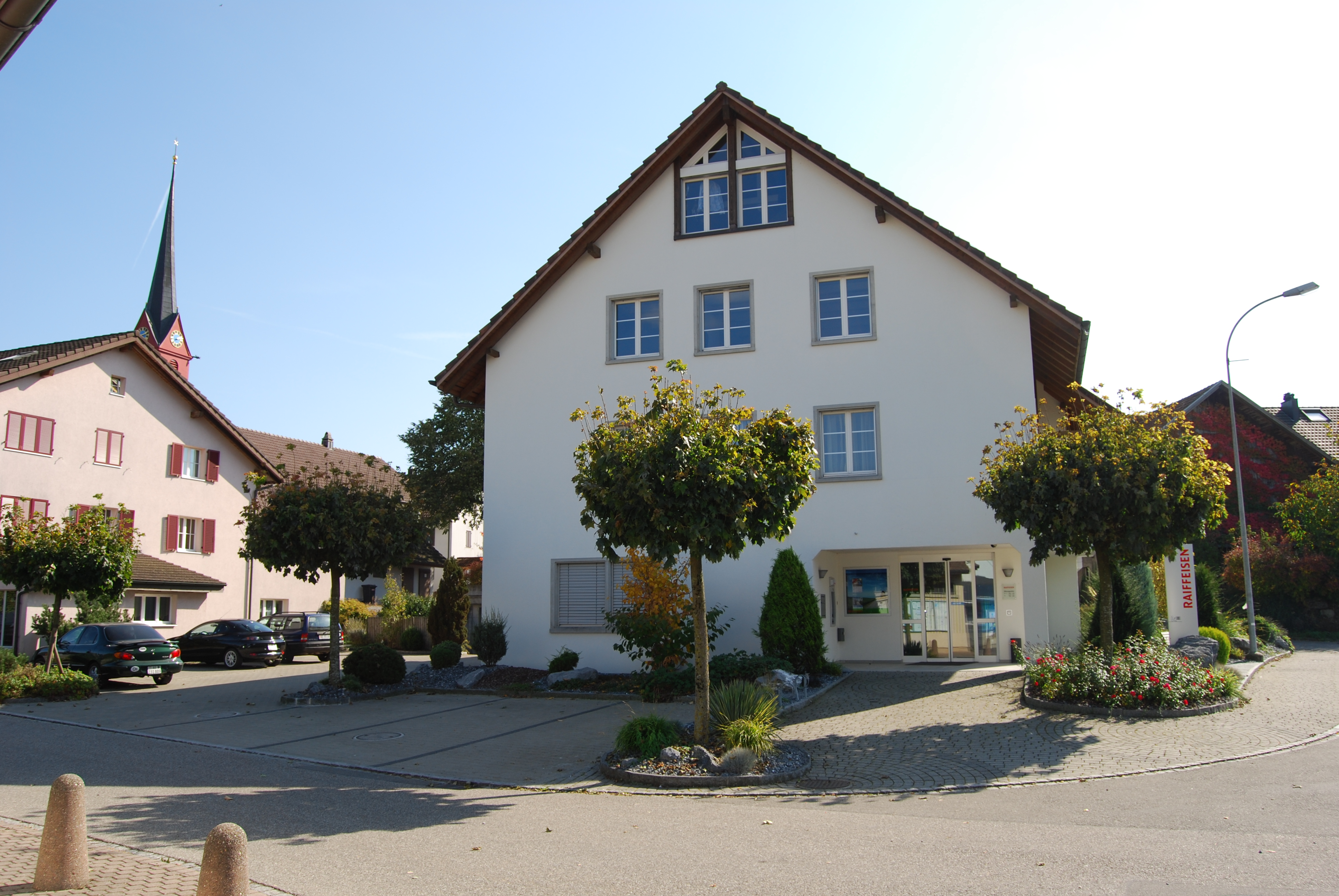 Village center of Waltenschwil, canton of Aargau, SwitzerlandEsperanto: Vilaĝa centro de Waltenschwil, Kantono Argovio, Svislando